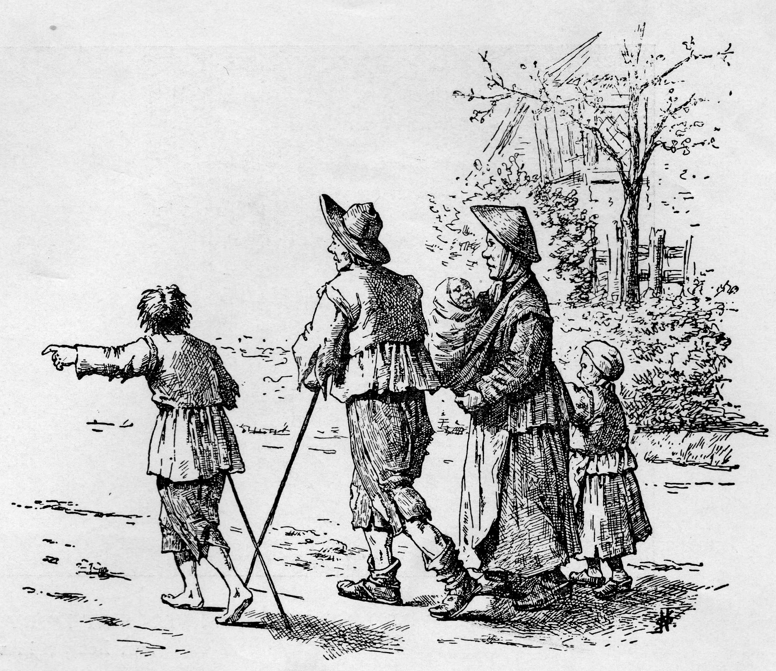 Beggars in the first half of the 17th century